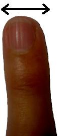 finger width